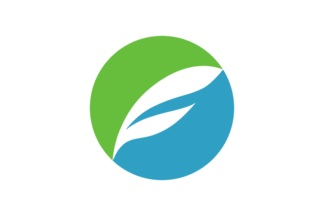 Flag of Fukuroi Shizuoka